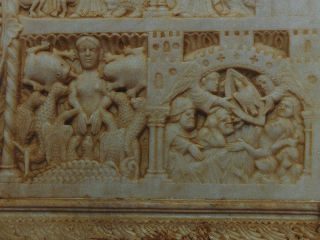 Fragment of the roman altarpiece of St. Thecla, Cathedral of Tarragona, 12th cent.